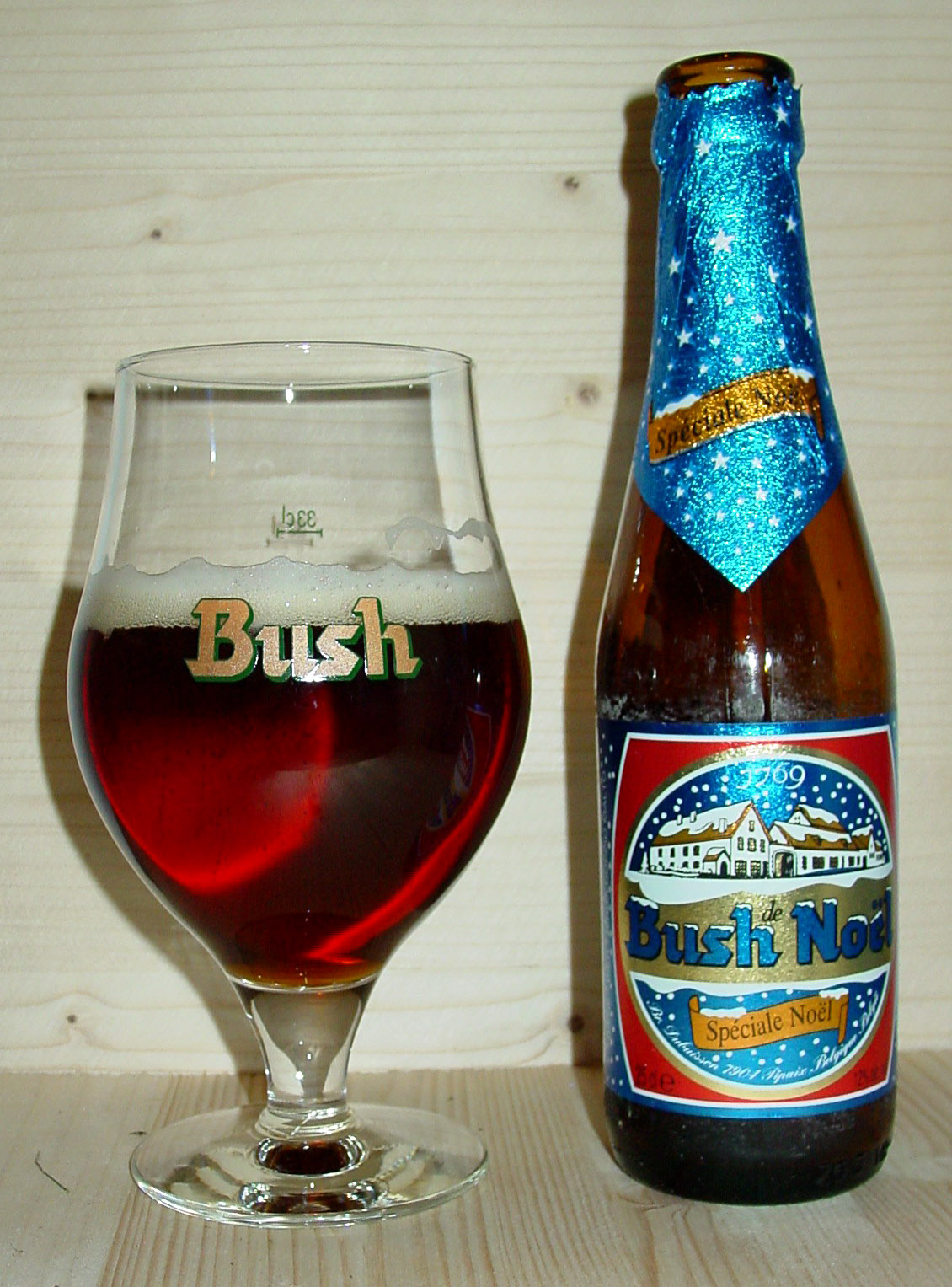 Bush Noël, Belgian Christmas beer